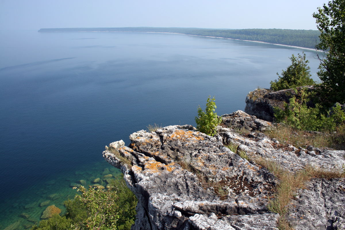 Bruce Trail at Dyer's Bay - over-looking Georgian Bay towards Cape Chin North